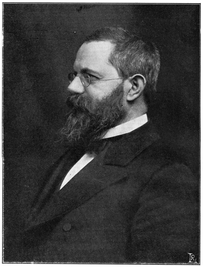 Portrait Moses Gaster